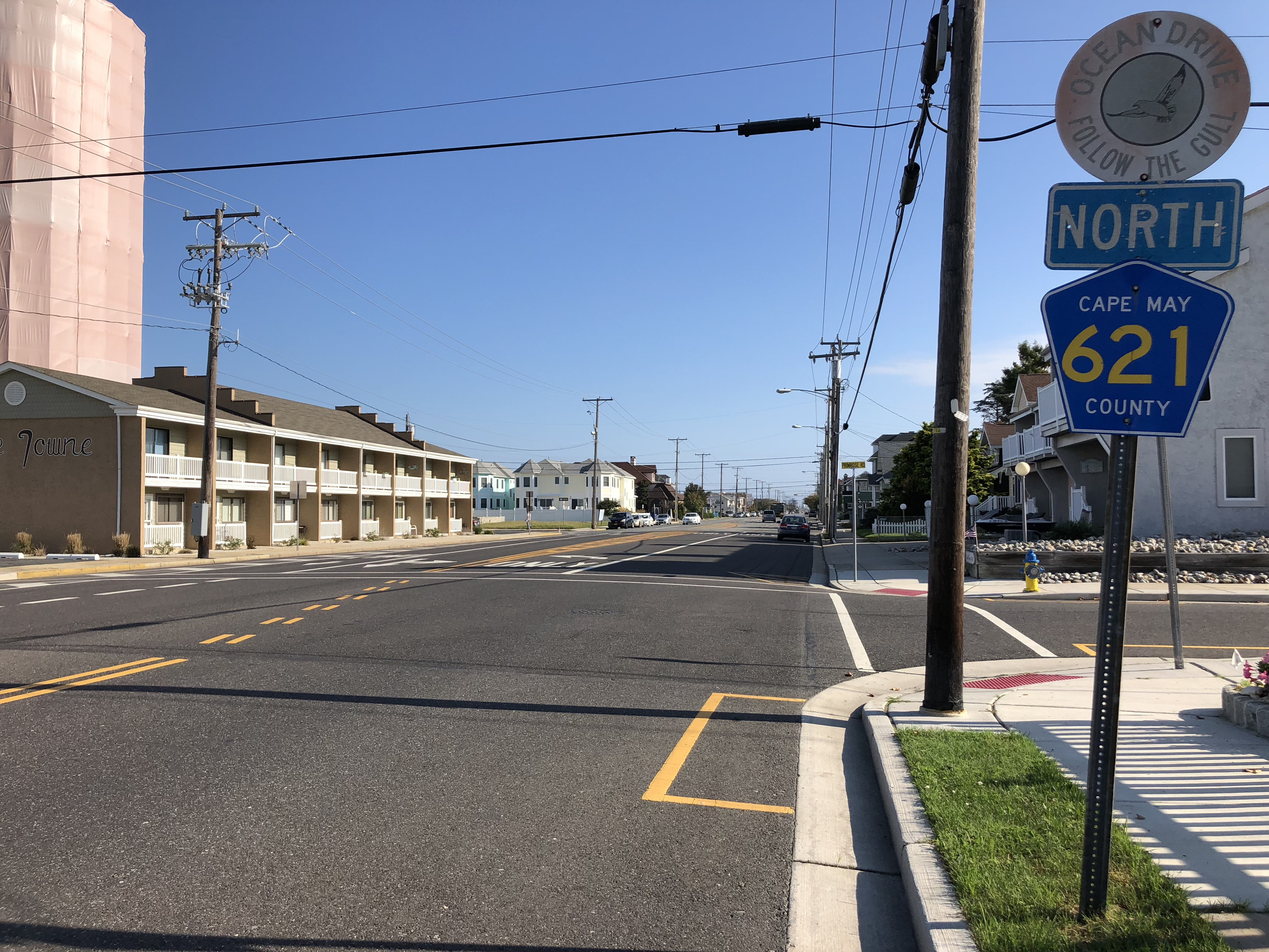 View north along Cape May County Route 621 (New Jersey Avenue) at Primrose Road in Wildwood Crest, Cape May County, New Jersey